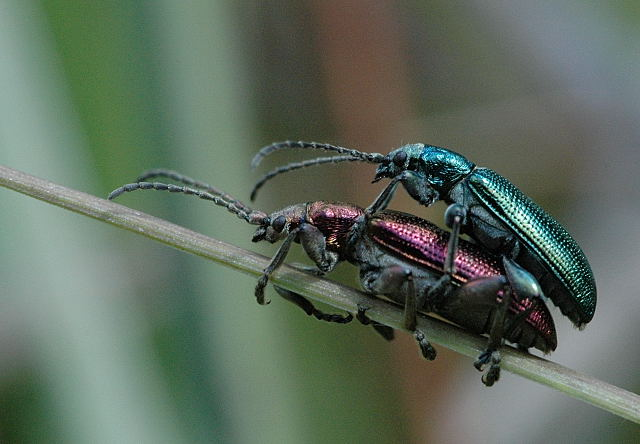 Picture taken in Commanster, Belgian High Ardennes . Species: Plateumaris sericea couple